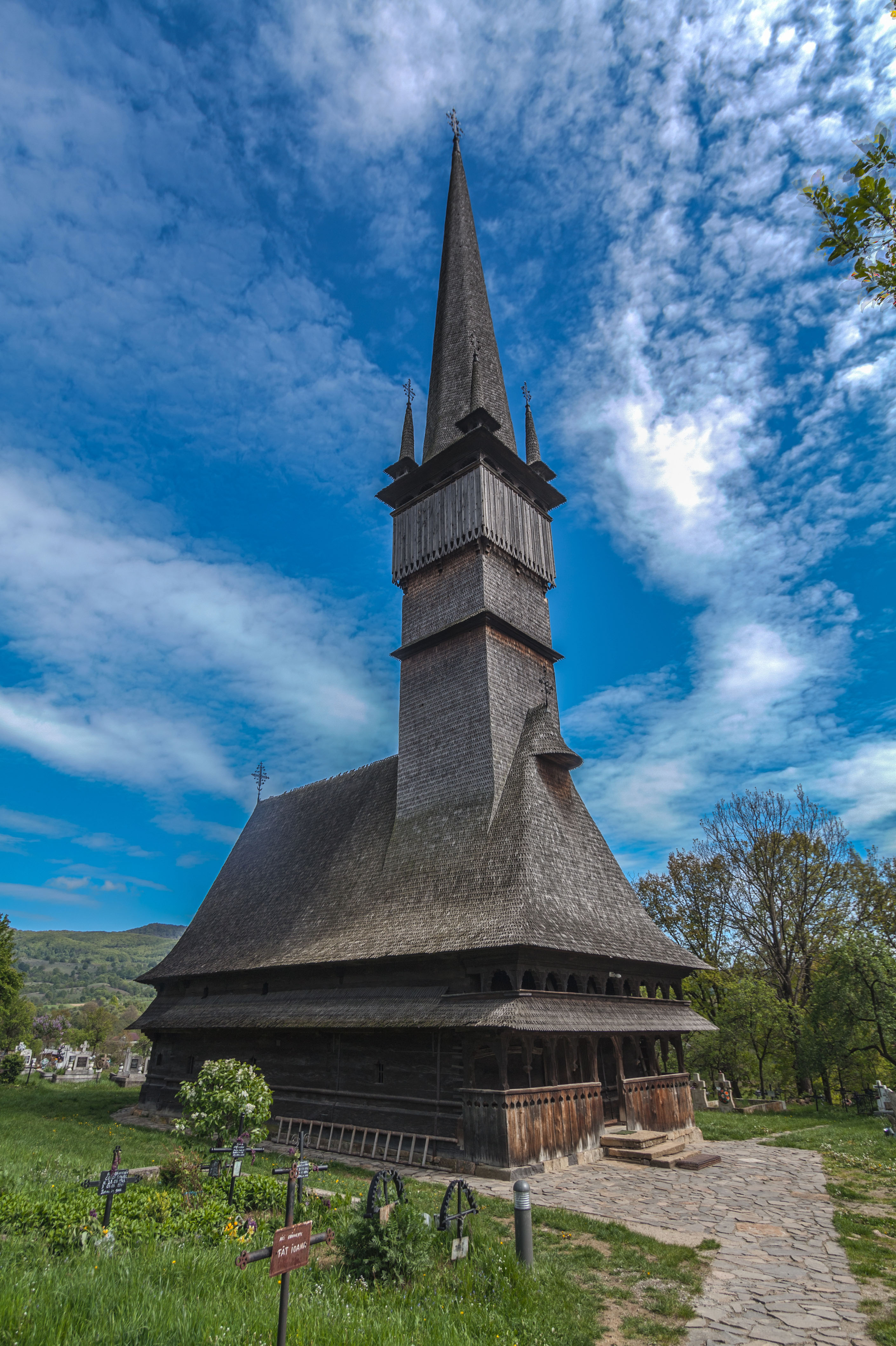 Wooden Church of Şurdeşti